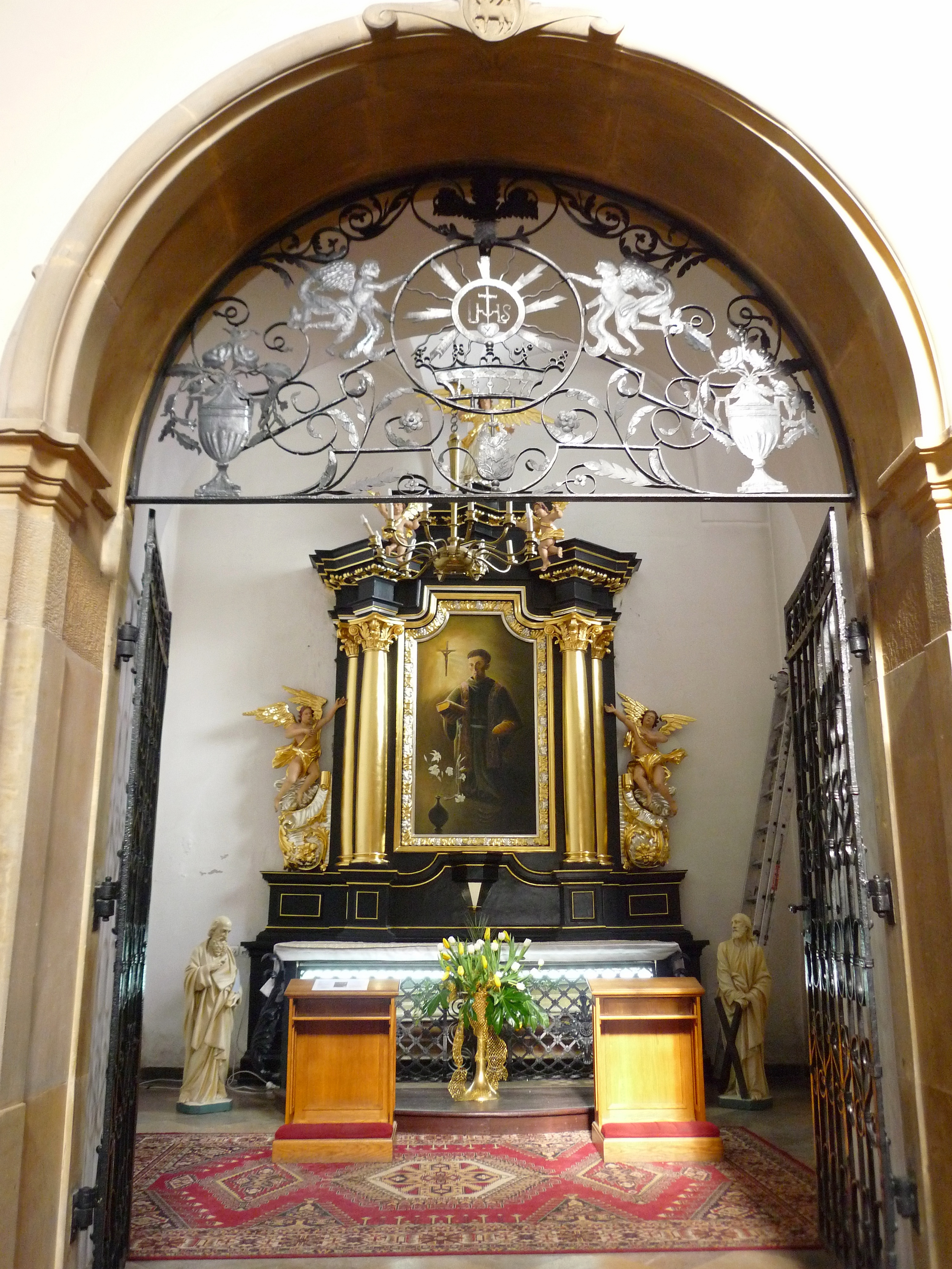 Łódź-Łagiewniki (Poland), St. Anthony of Padua Church - the chapel of blessed Raphael Chylinski